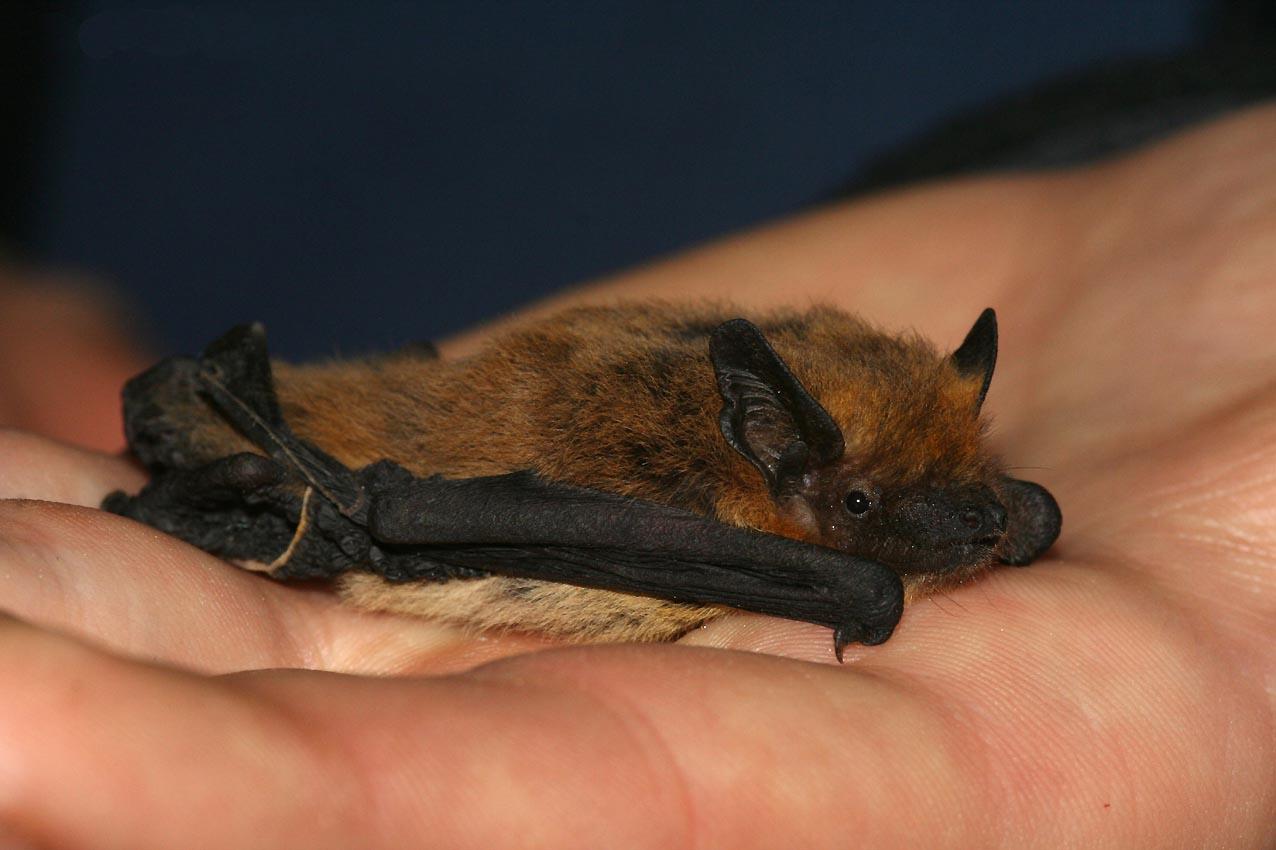 Adult Kuhl's Pipistrelle (Pipistrellus kuhlii)